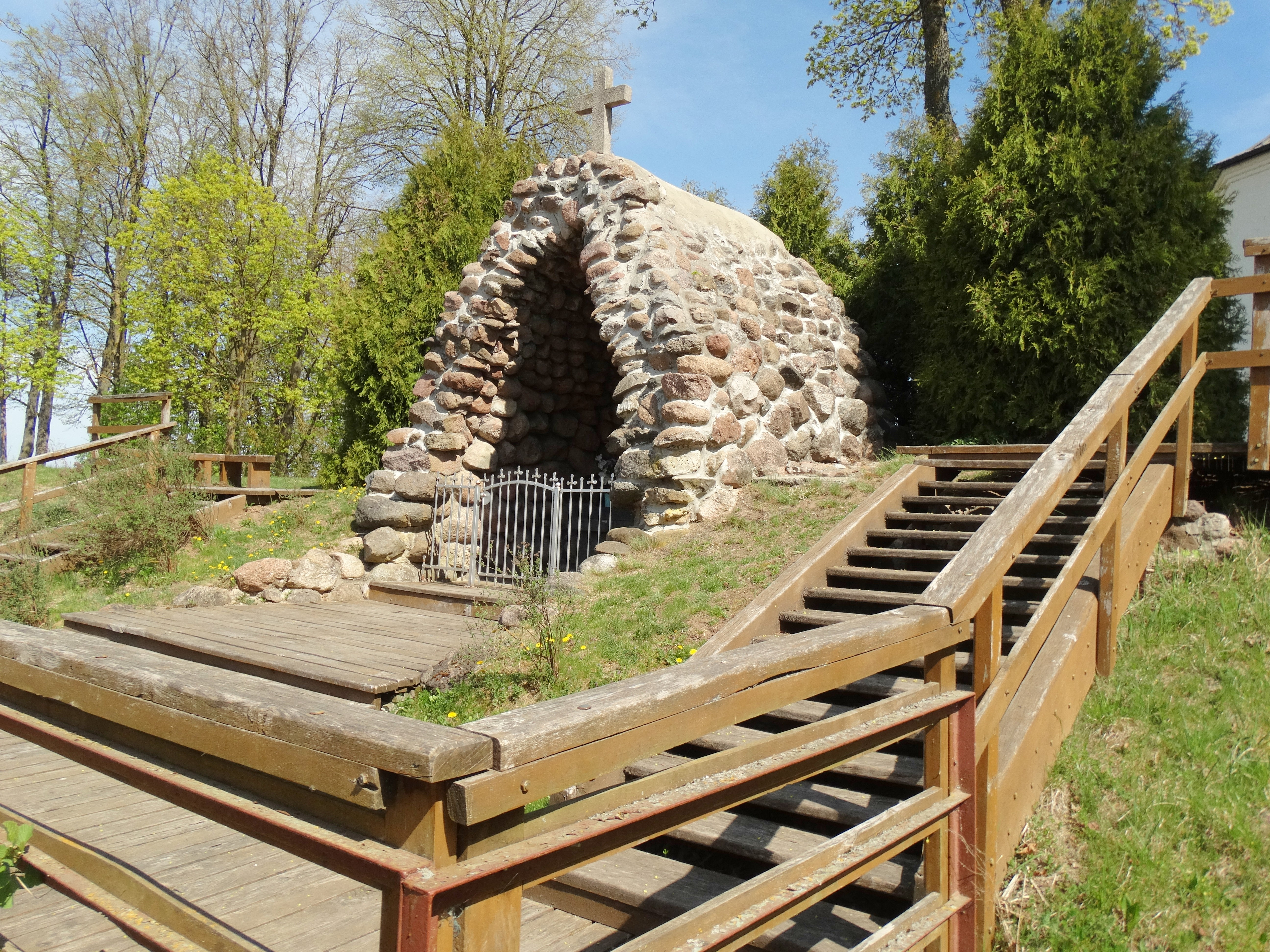 Lourdes Grotto, Pamūšis (Klovainiai), Pakruojis district, Lithuania